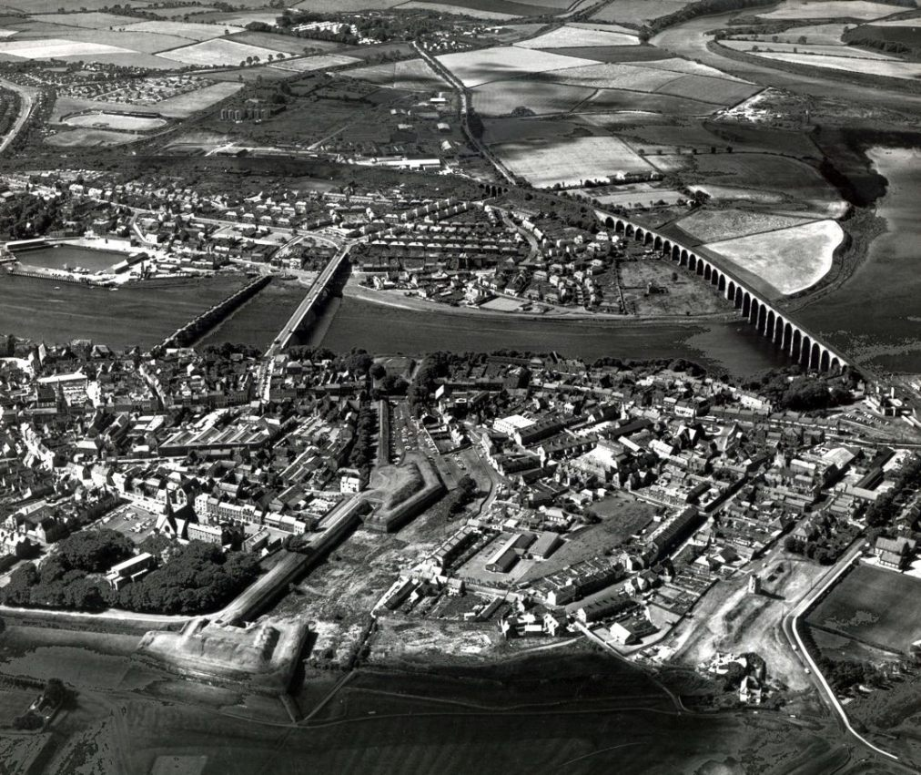 Taken on a cloudy day, this image clearly shows the Elizabethan town walls and bastions. The Royal Border Railway Bridge can be seen on the right and the docks at Tweedmouth on the left. Reference: TWAS: DT.TUR.7.47 (Copyright) We're happy for you to share this digital image within the spirit of The Commons. Please cite 'Tyne & Wear Archives & Museums' when reusing. Certain restrictions on high quality reproductions and commercial use of the original physical version apply though; if you're unsure please . To purchase a hi-res copy please quoting the title and reference number.